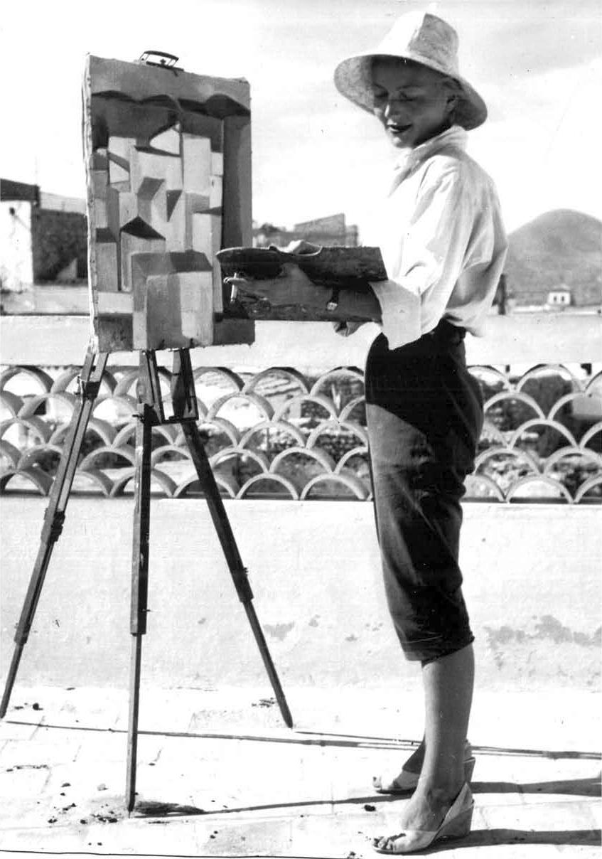 Photograph of the Finnish painter Anita Snellman (1924–2006) at work.